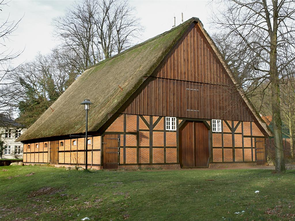 Uetersen /Germany -- Scheune im Park Langes Tannen -- Barn in the park of Langes Tannen -- Photo: 2008